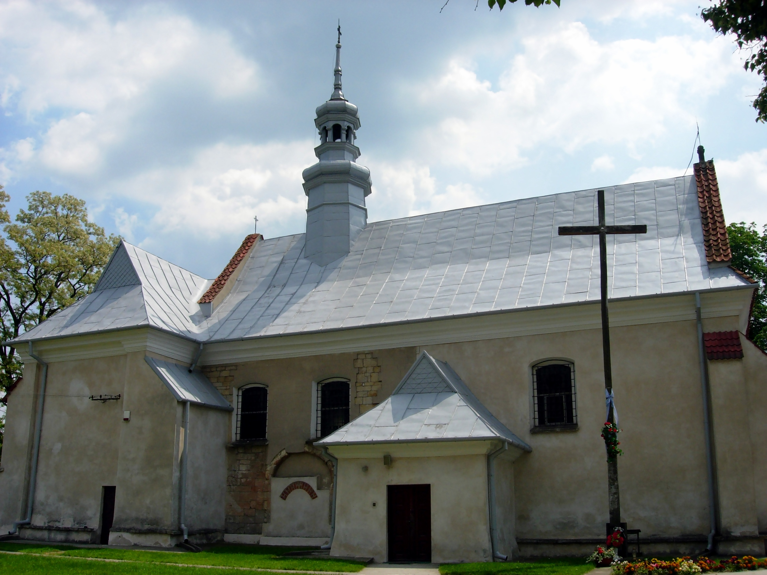 Holy Trinity Church in Zawichost, Poland